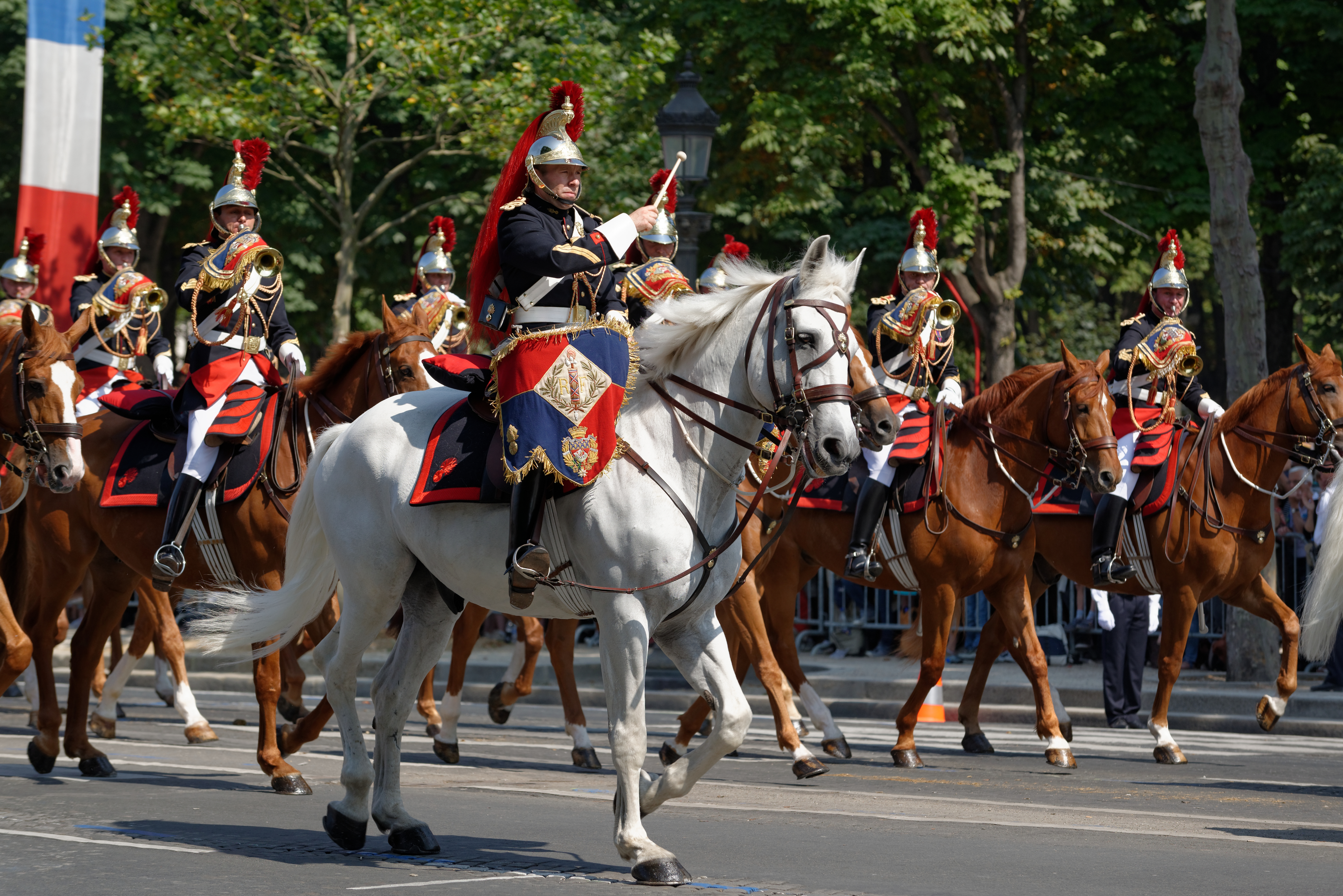 Timpanist and first trumpets of the mounted band of the Republican Guard in the Bastille Day 2013 military parade on the Champs-Élysées in Paris.